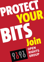 Open Righst Group poster